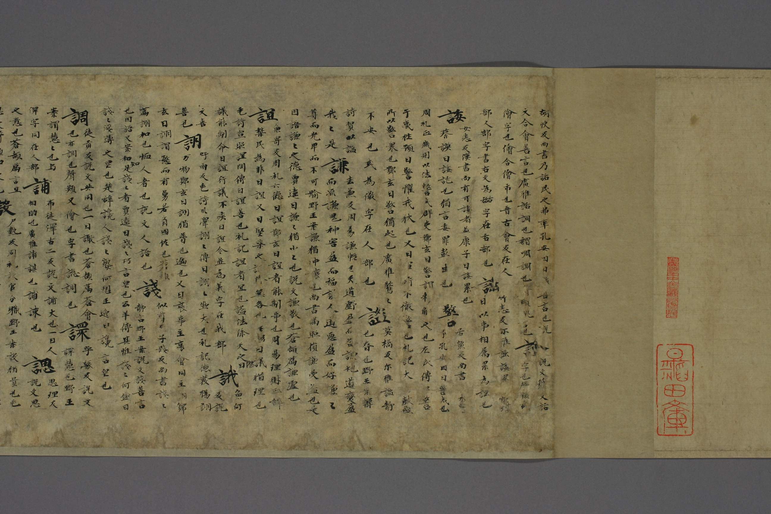 Yupian (玉篇, gyokuhen), fragments of vol. 9